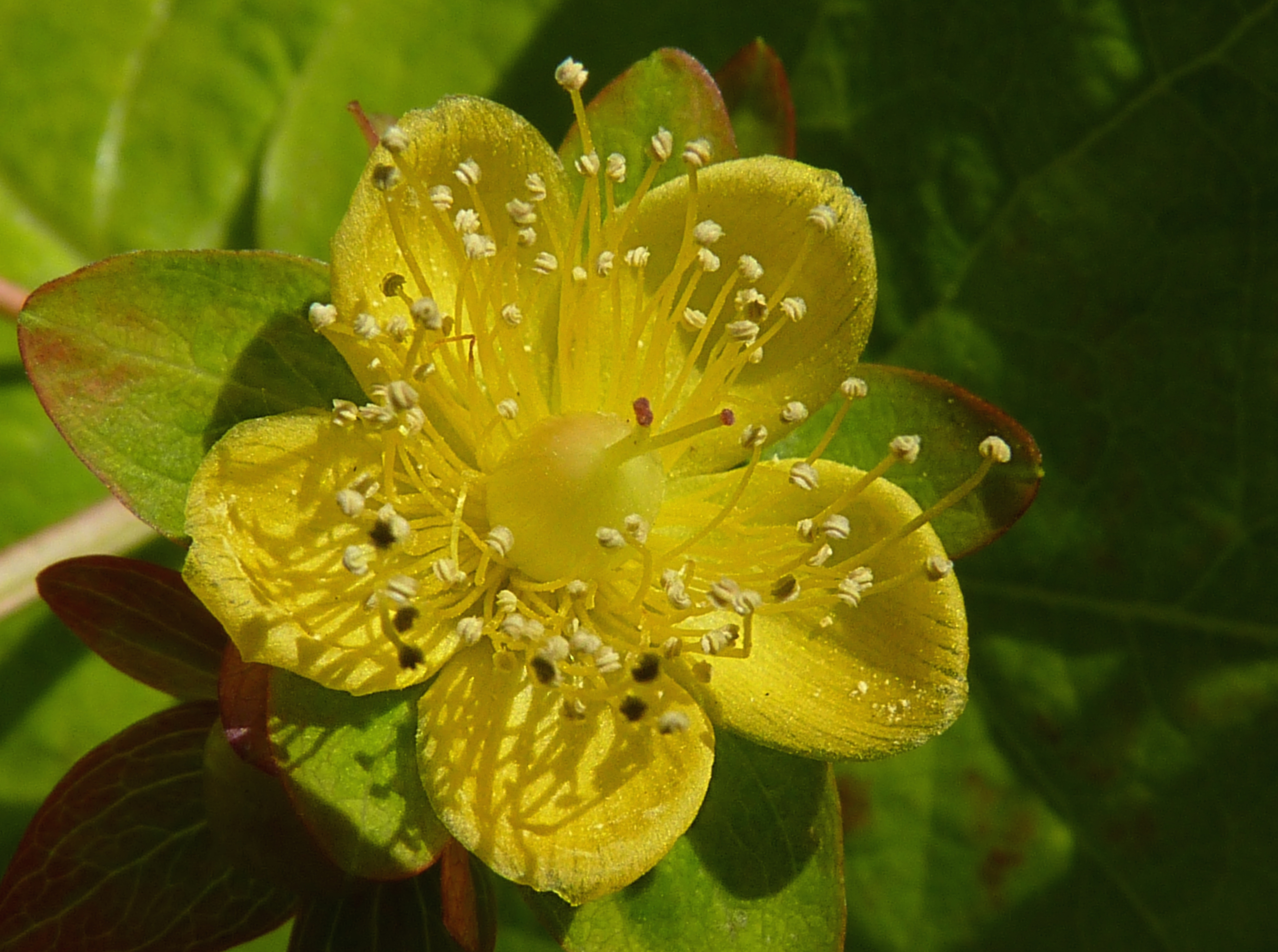 Hypericum x inodorum 'Golden Beacon', in a garden in Belgium.